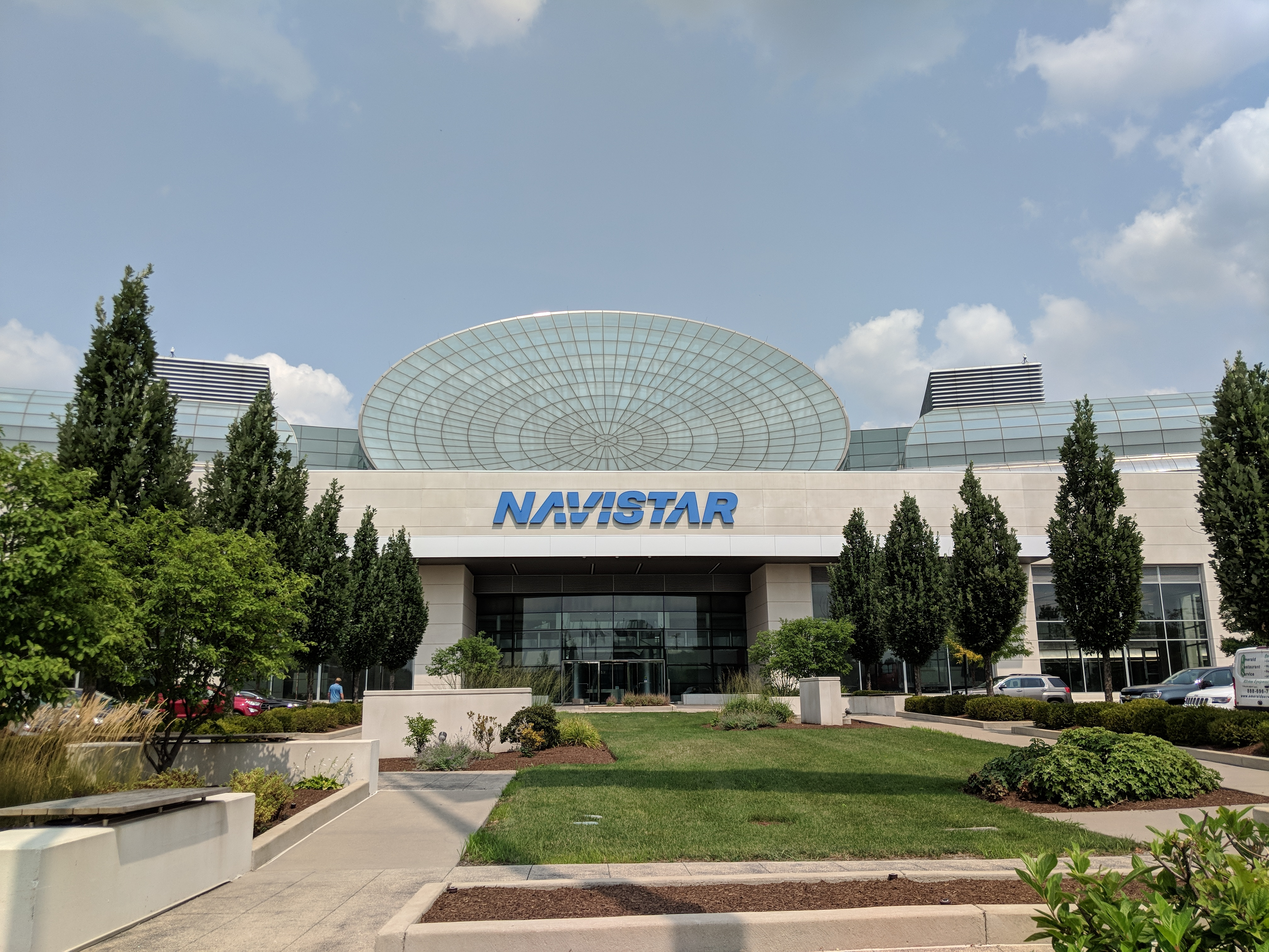 A photo of the Navistar International headquarters building in Lisle, IL.